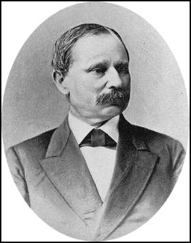 Photo of Cadmus Marcellus Wilcox (1824-1890)